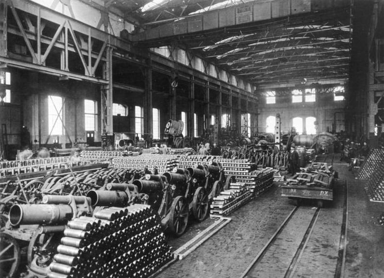 Information added by Wikimedia users.